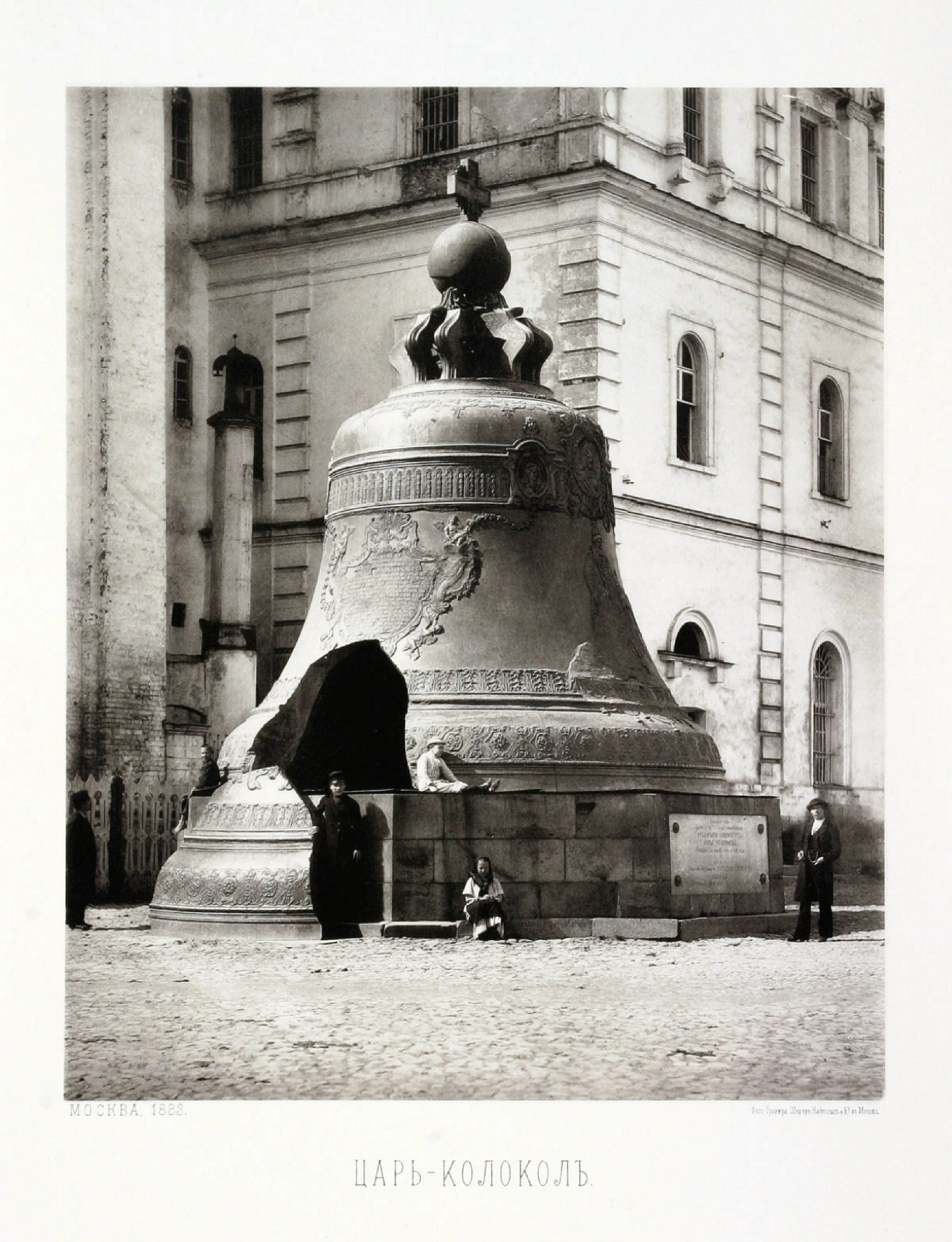 Plate 32: Tsar bell.